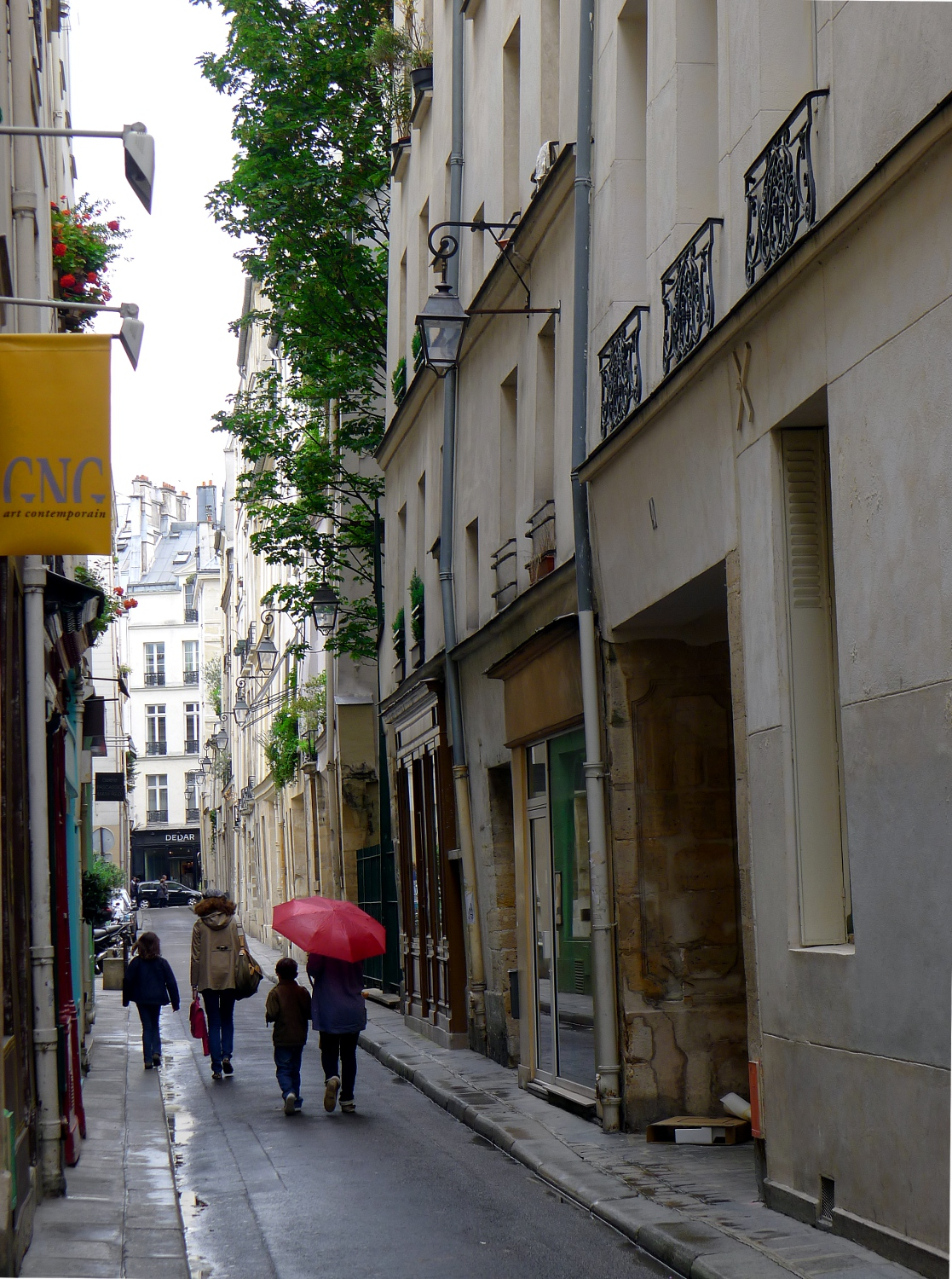 Visconti street - Paris